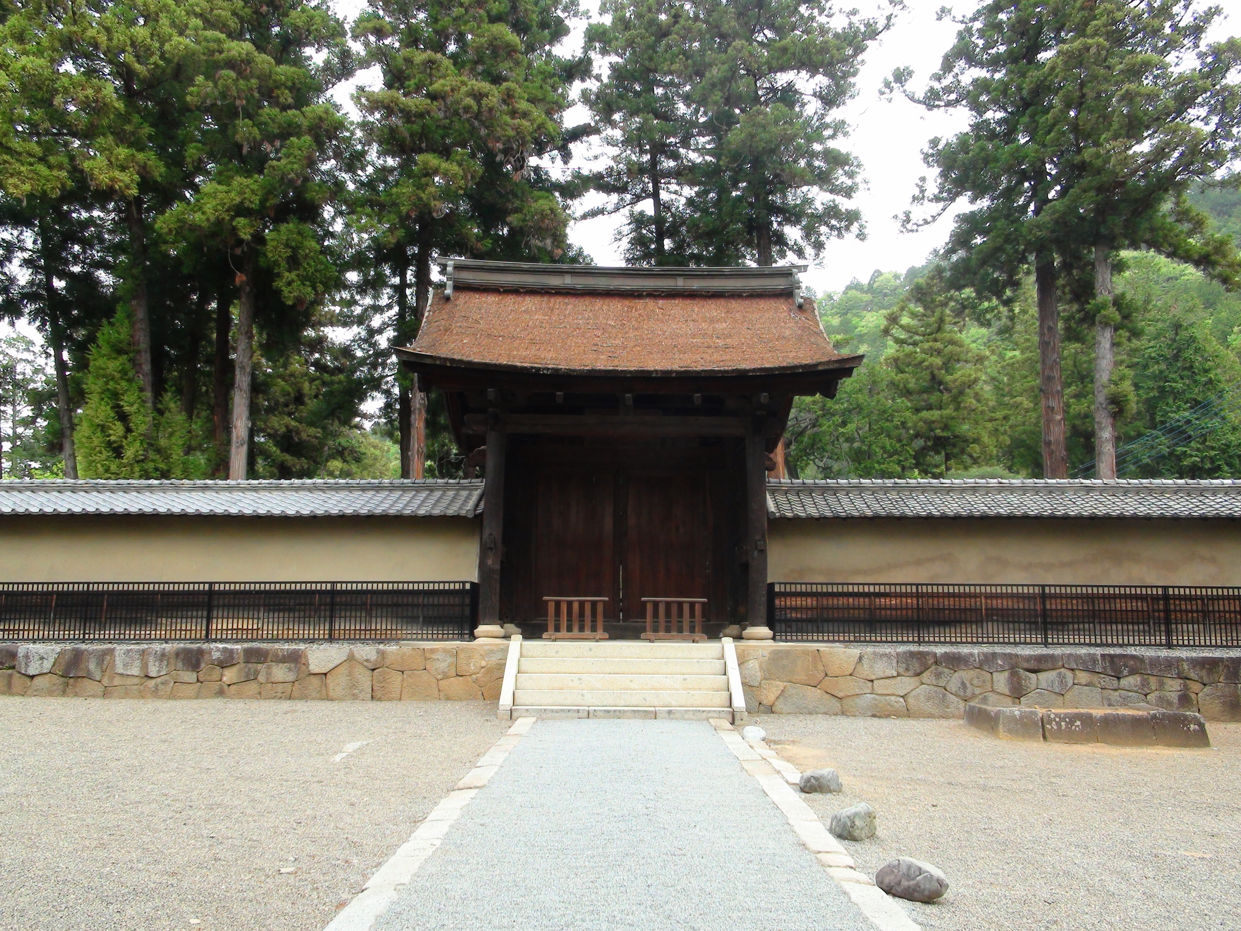 The middle gate of the Kogakuji temple